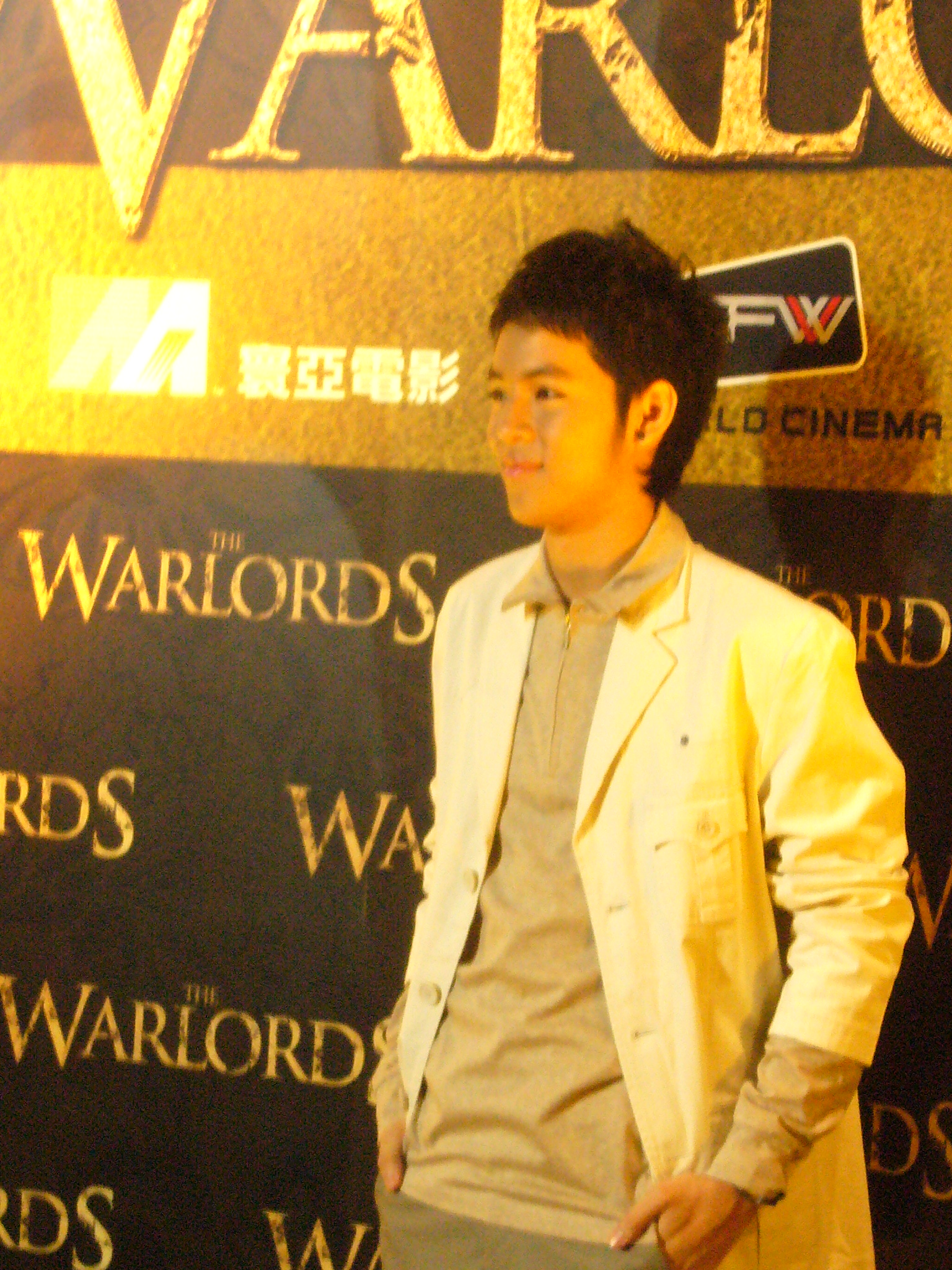 Witwisit Hiranyawongkul at the preview of the film The Warlords at SF World Cinema, CentralWorld, Bangkok